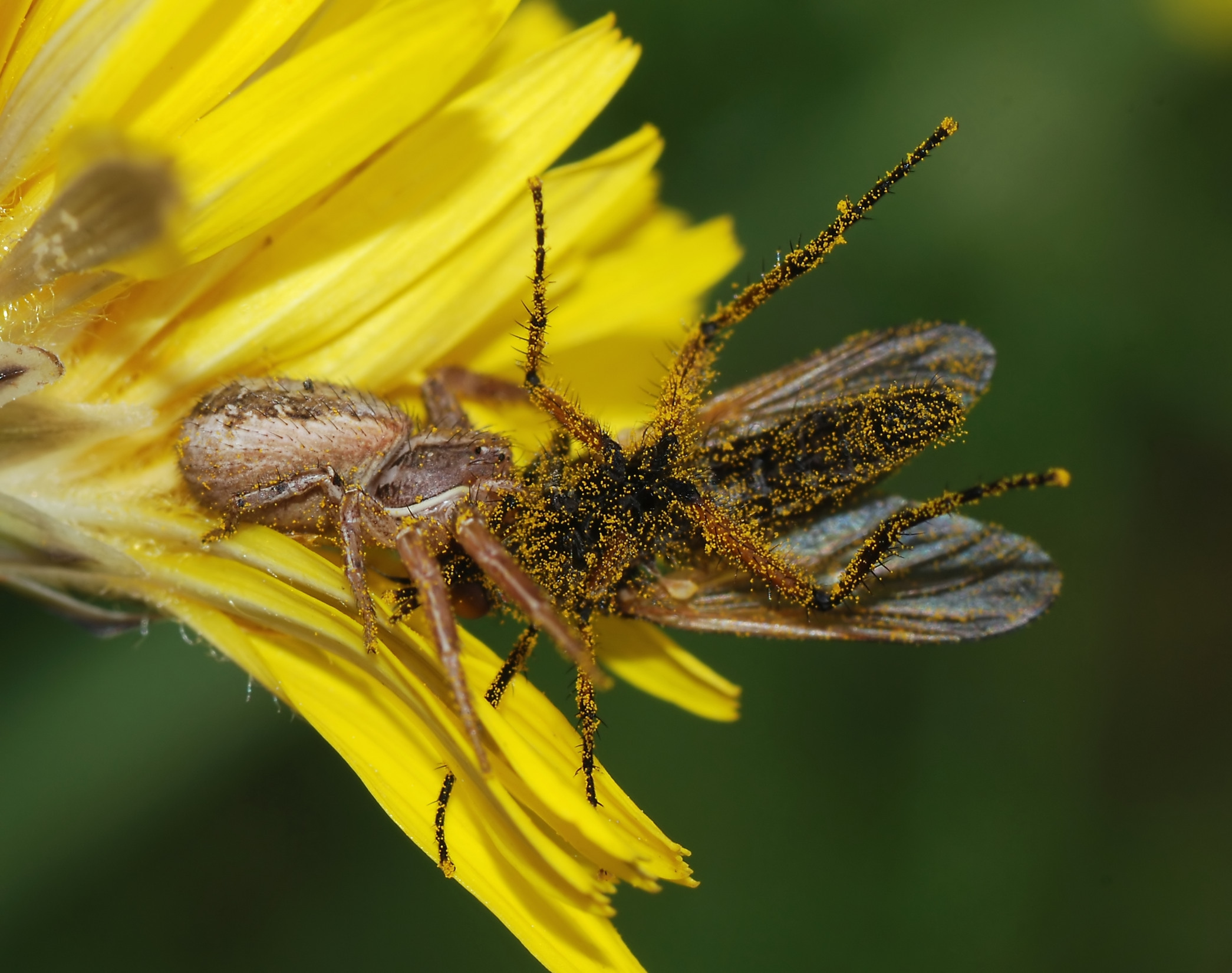 A Xysticus sp. spider paralysing a fly. Camera: Nikon D80 with Tokina 100mm macro and 36mm extension ring. Exposure: aperture priority, F/14 1/100, ISO 100